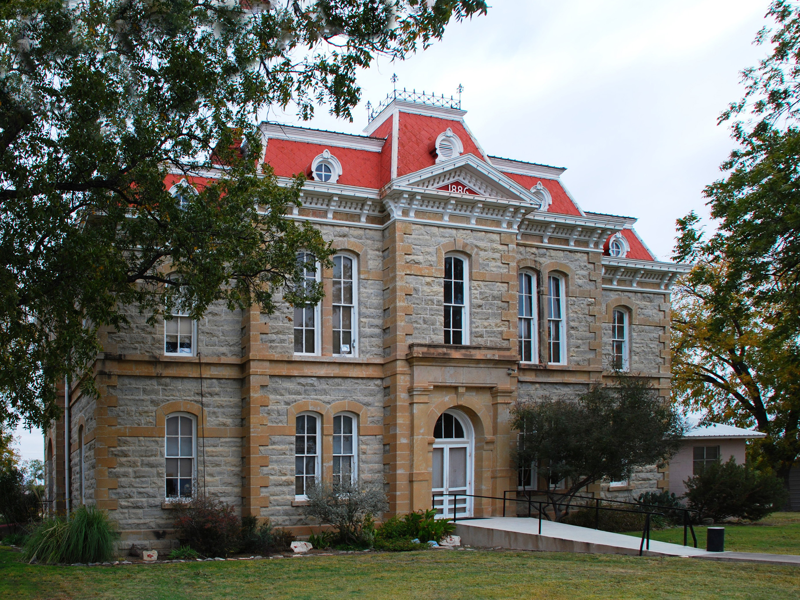 The Concho County, Texas Courthouse in Paint Rock. Recorded Texas Historic Landmark - 1962